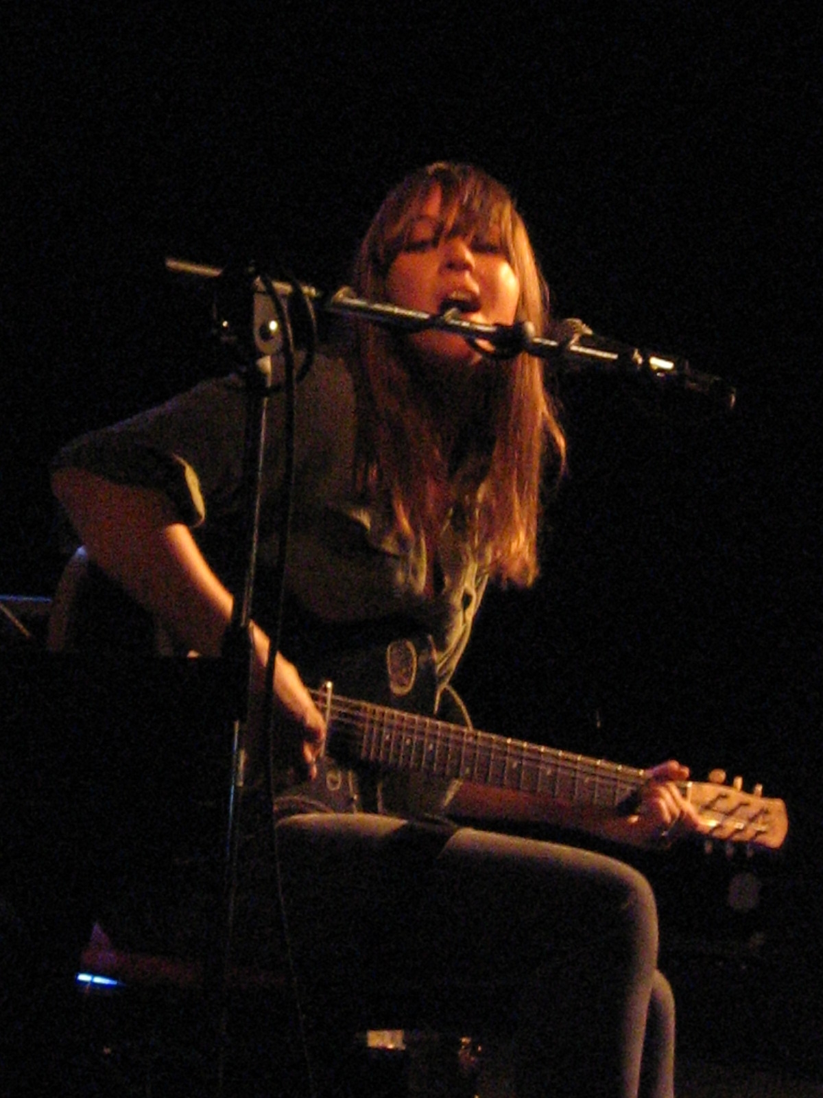 corrected verison of same picture originally uploaded by User:Dwiki. I did not create this image. Cat Power live at Lee's Palace, Toronto, Sept. 4th / 2006 , en.wikipedia; description page is/was here. Date 2006-11-30 (original upload date) Author Flickr user Basic Sounds - [1] Permission CC-BY-2.0.